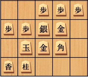 A screenshot of MacShogi depicting the Yagura-castle defensive position.